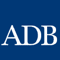 Asian Development Bank, ADB Loan Disbursement Handbook